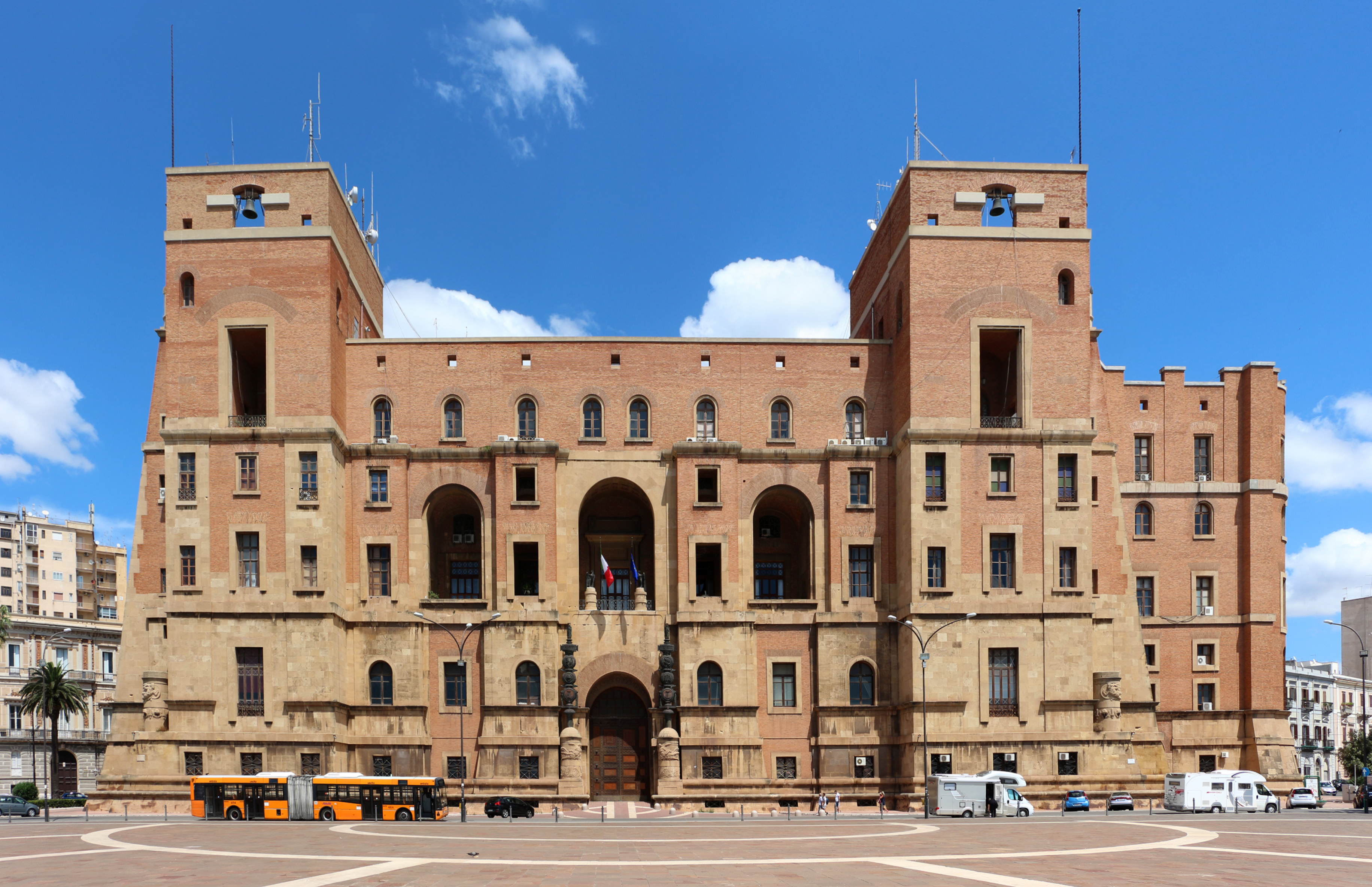 Buildings in Taranto